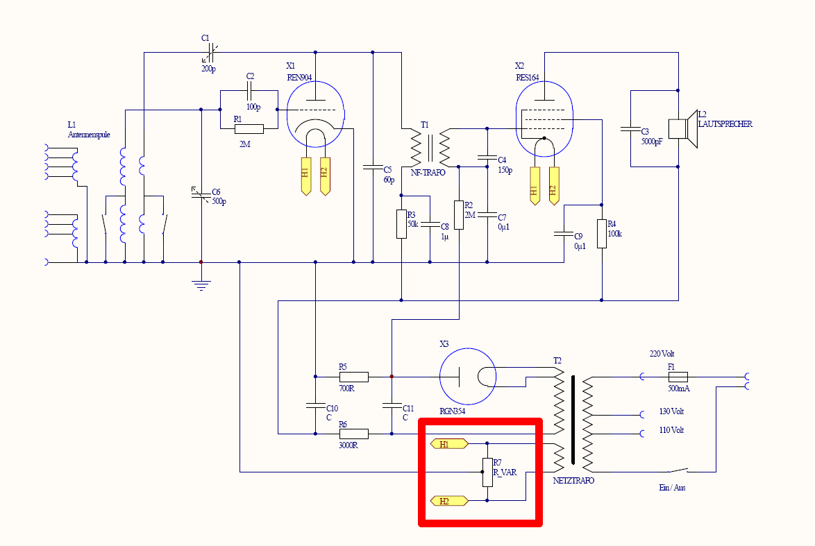 Schematics of Volksempfänger VE301W